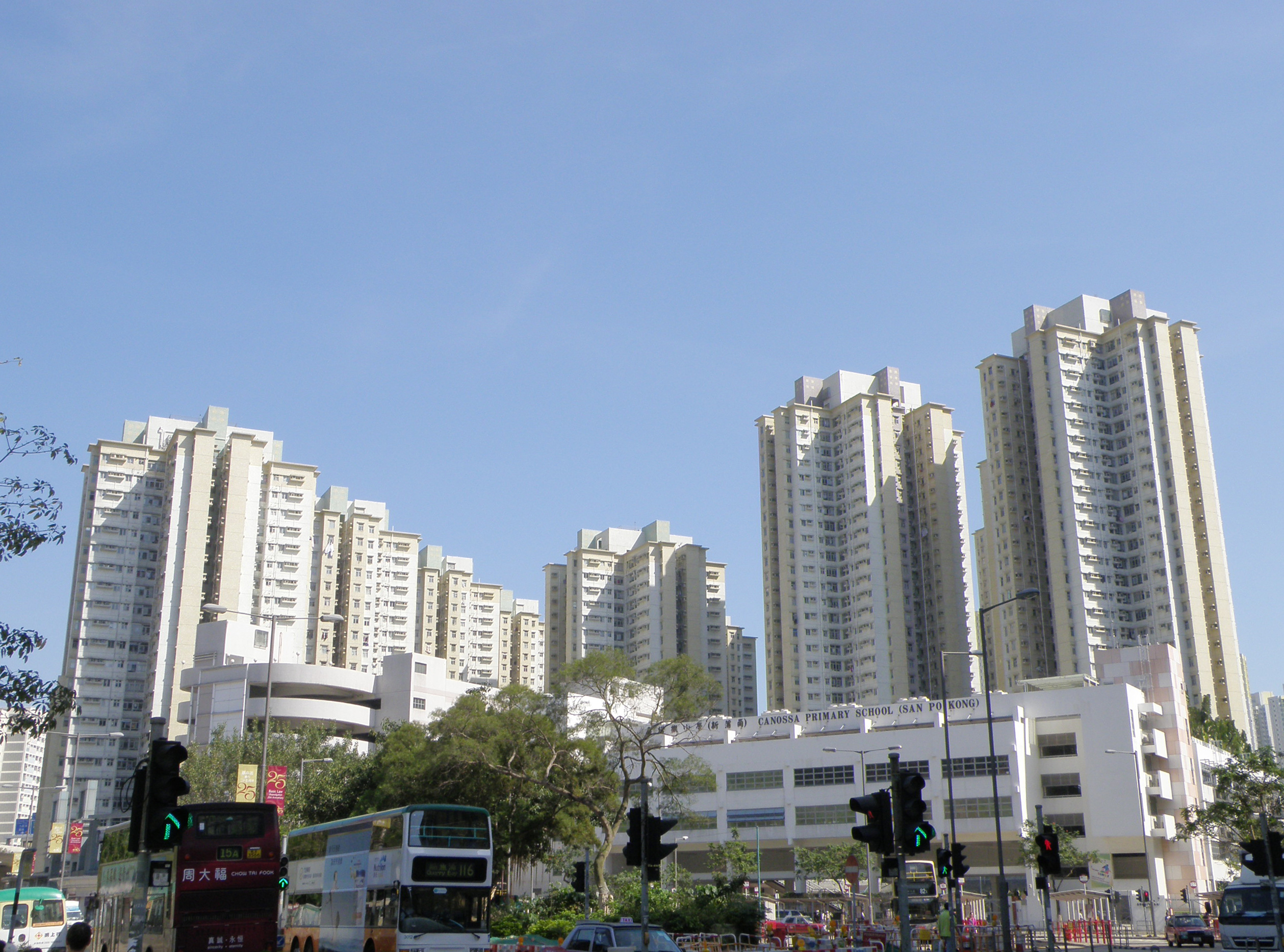 Rhythm Garden in San Po Kong, Hong Kong.